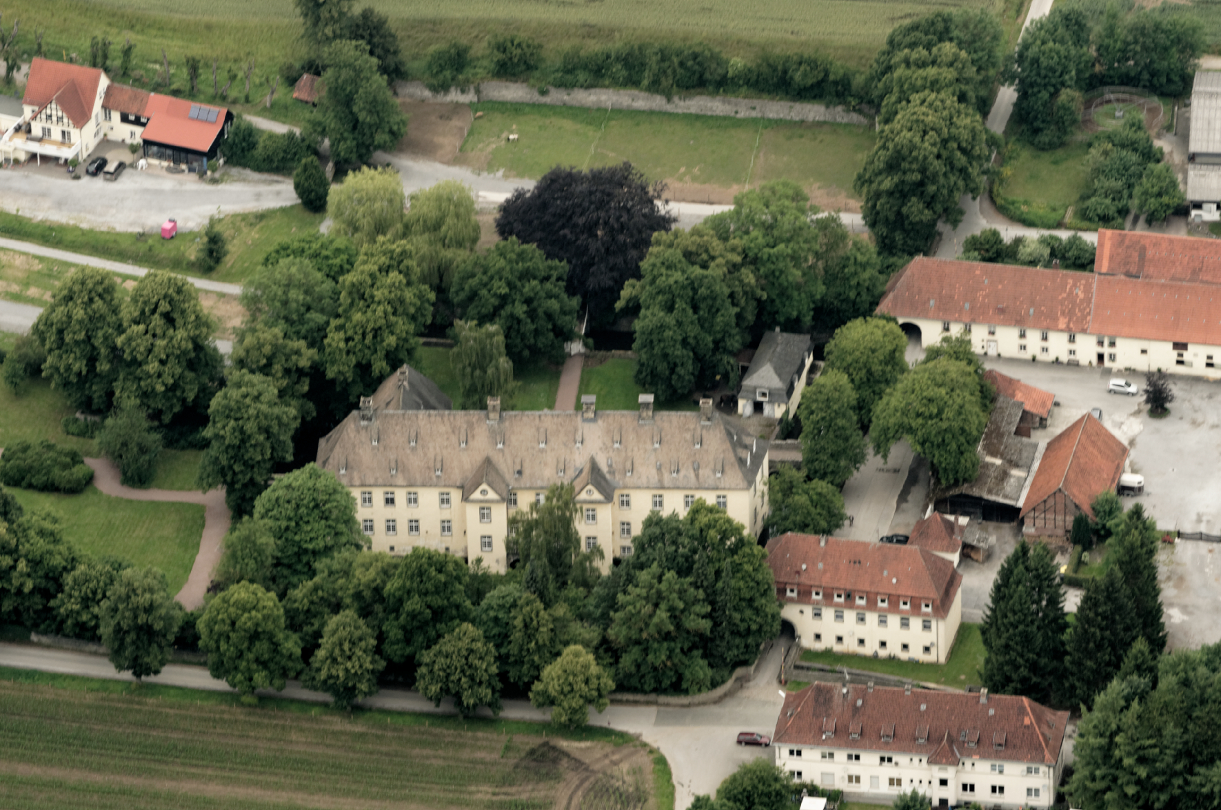 Balve: Schloss Wocklum, Fotoflug Sauerland Nord The making of this document was supported by the Community-Budget of Wikimedia Germany.